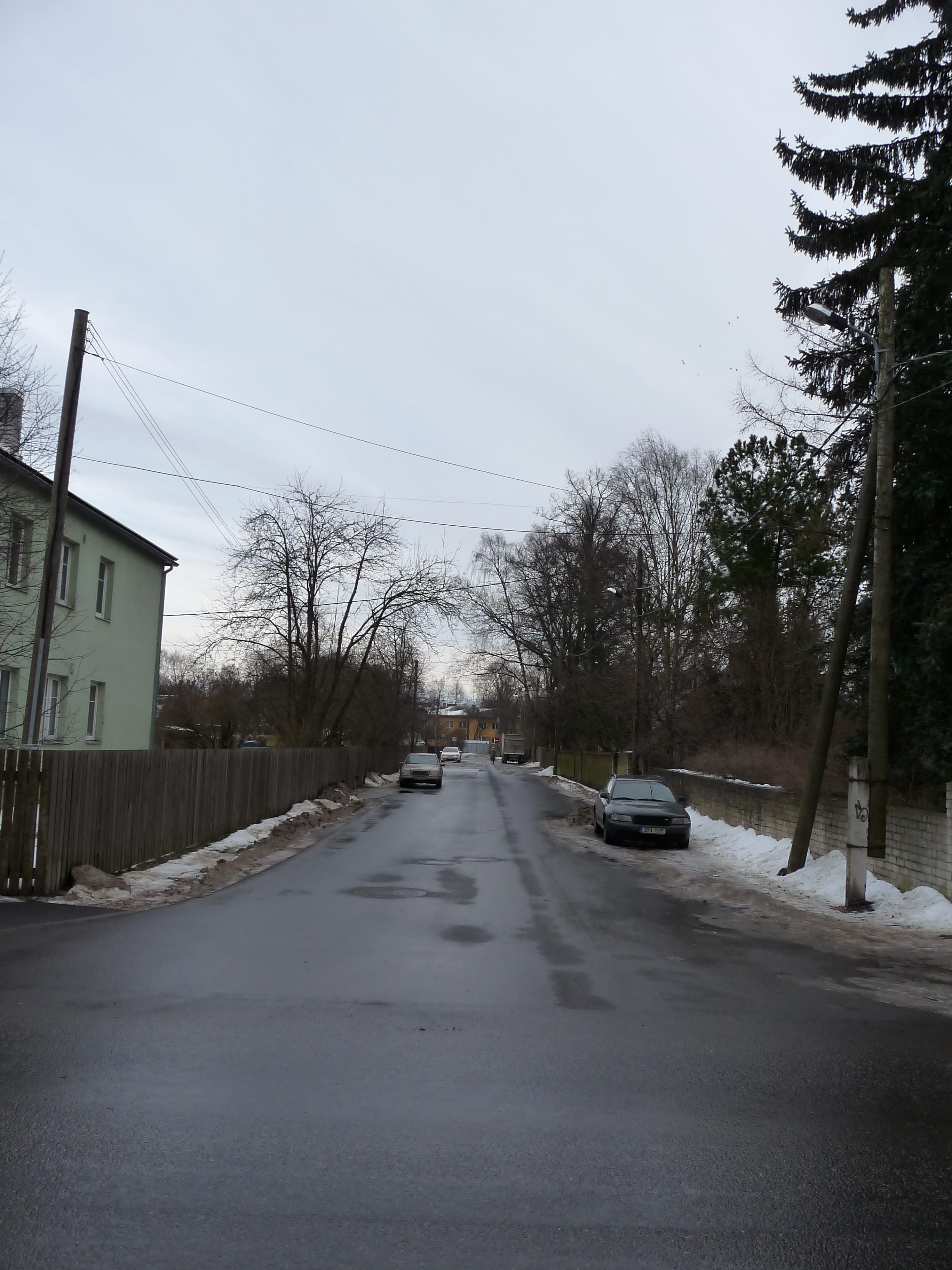 Meleka street in Tallinn, Estonia